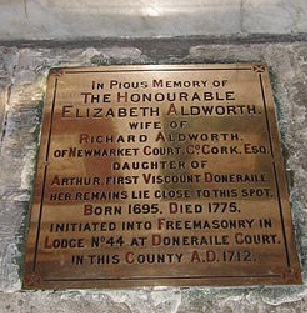 Memorial plaque to Elizabeth Aldworth in Saint Finbarre's Cathedral.